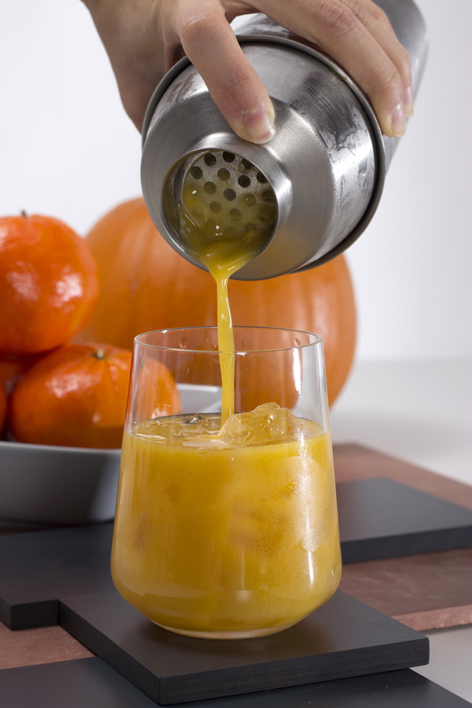 Straining a cocktail from a cobbler shaker